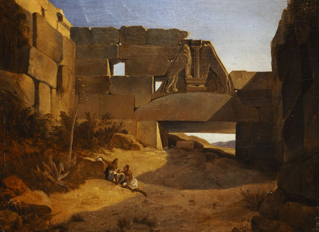 Mycenae, The Lion Gate before the excavations, 1882